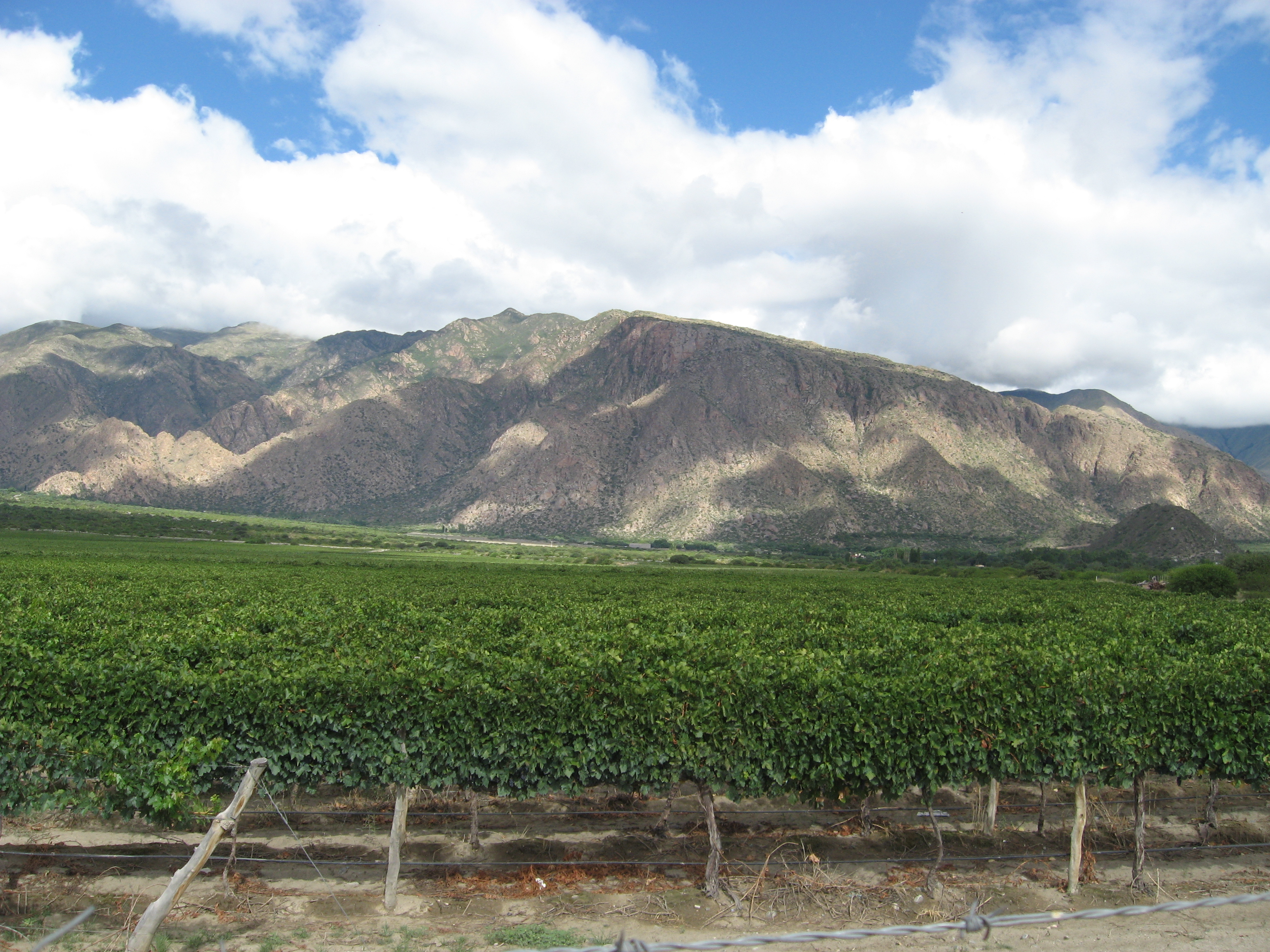 A winery near Cafayate, Salta Province (Argentina).